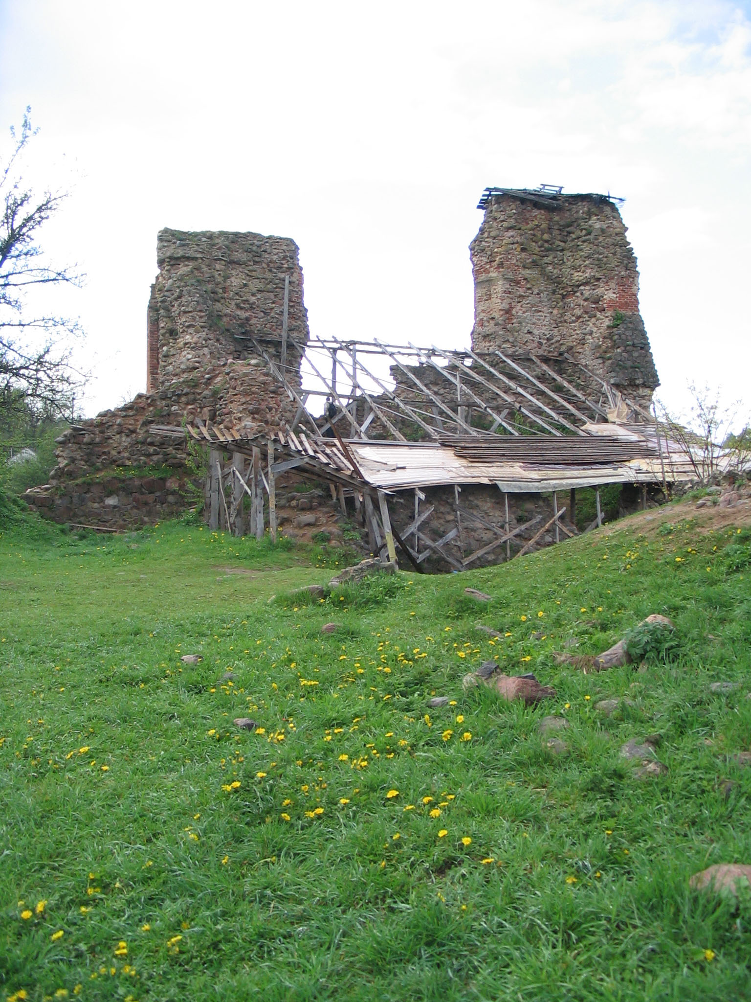 Tower of Kreva Castle, Belarus